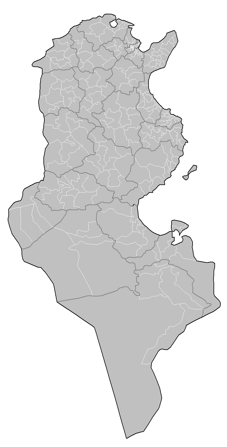 Map of the delegations (districts/mutamadiyat) of Tunisia. Created by Rarelibra 19:33, 2 October 2007 (UTC) for public domain use, using MapInfo Professional v8.5 and various mapping resources.